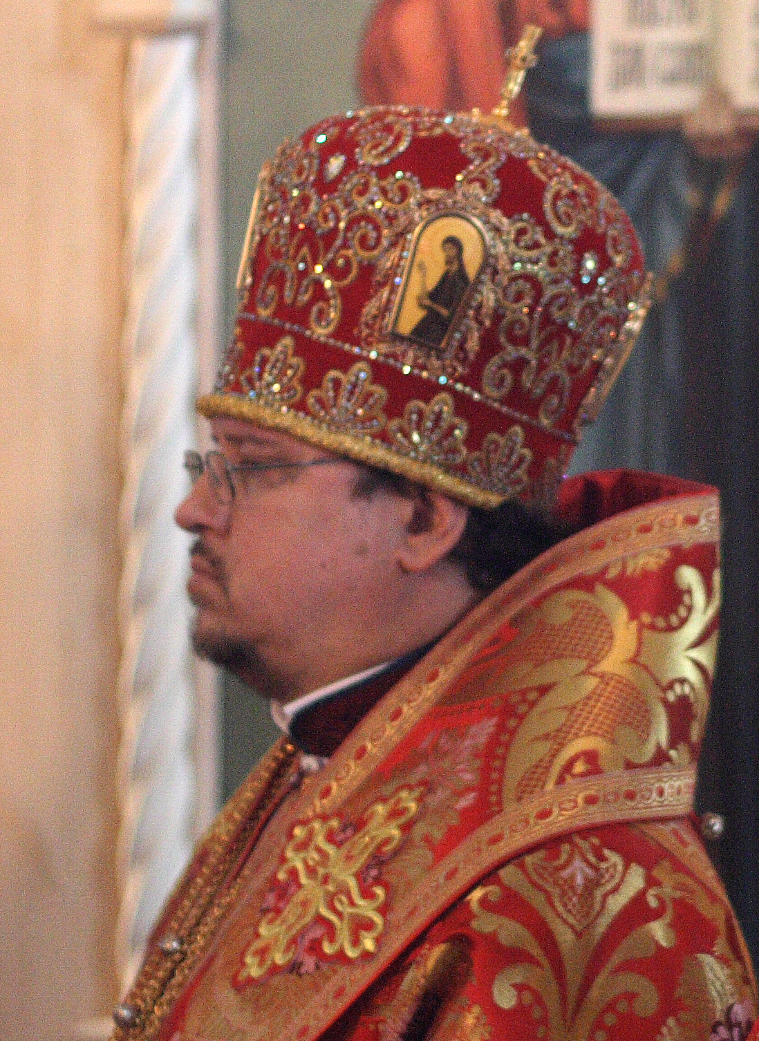 Ilary, bishop of Makiivka